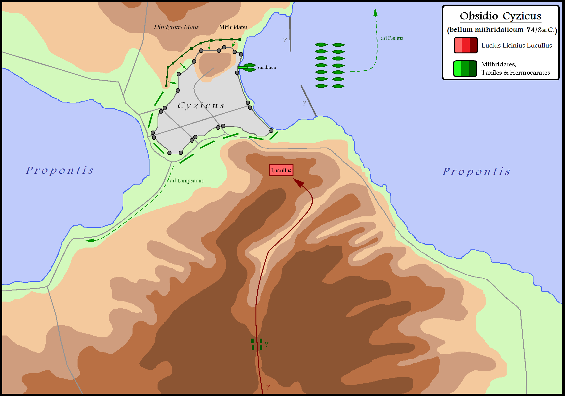 Siege of Cyzicus during third Mithridatic war (74 BC)